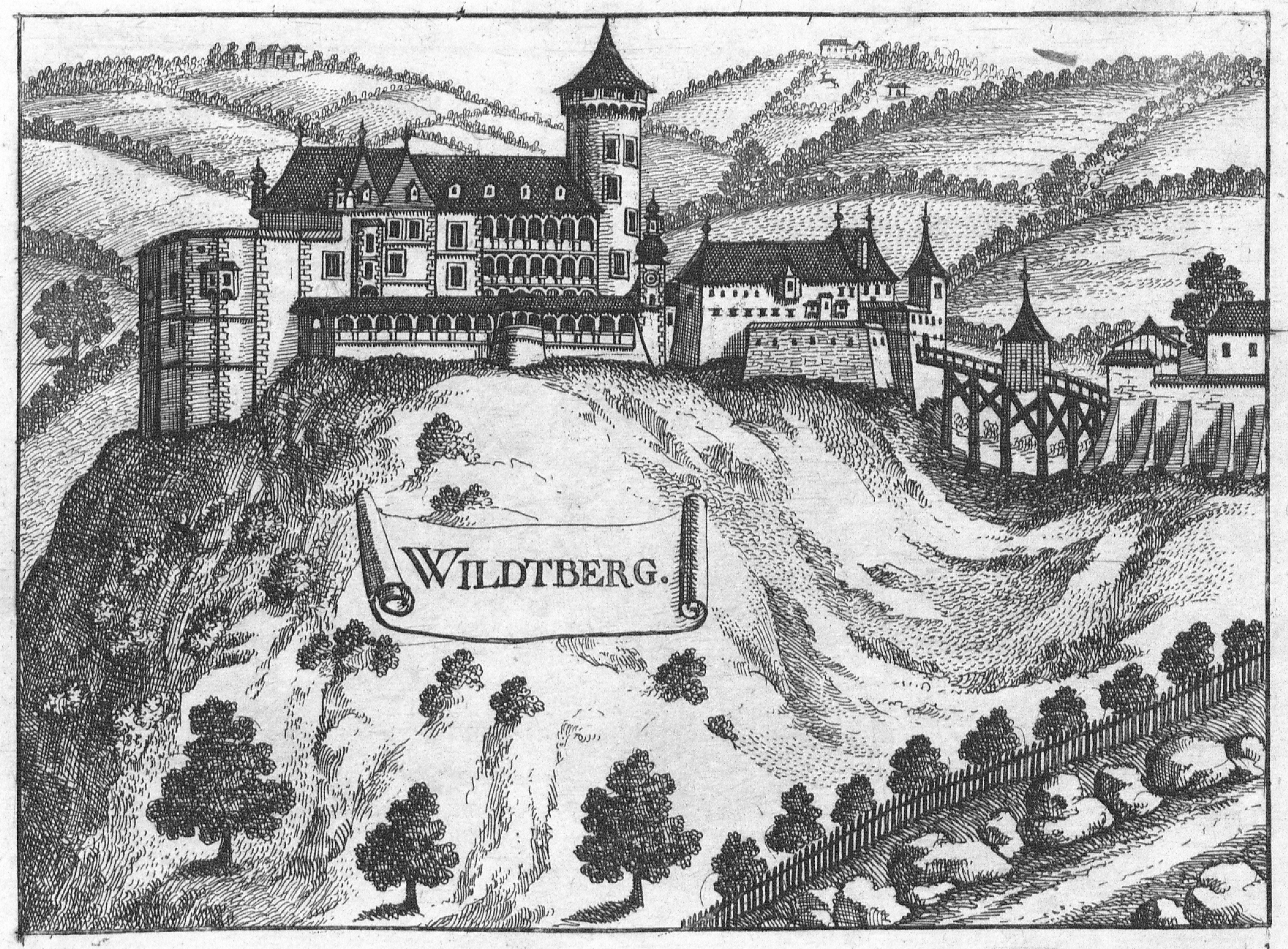 Engraving, view of Wildberg castle, Upper Austria